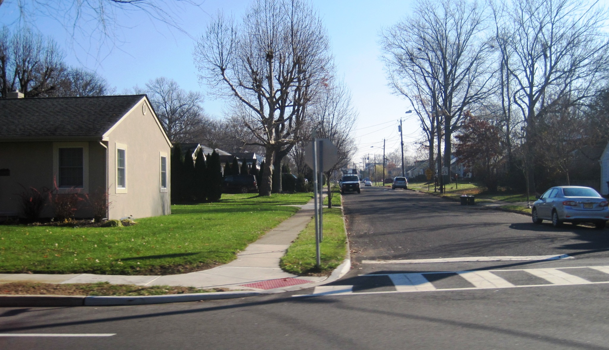 Photo of Slackwood, New Jersey, an unincorporated community within Lawrence Township, Mercer County. Photo taken looking southeast along Harmony Avenue from Princeton Pike (County Route 583).